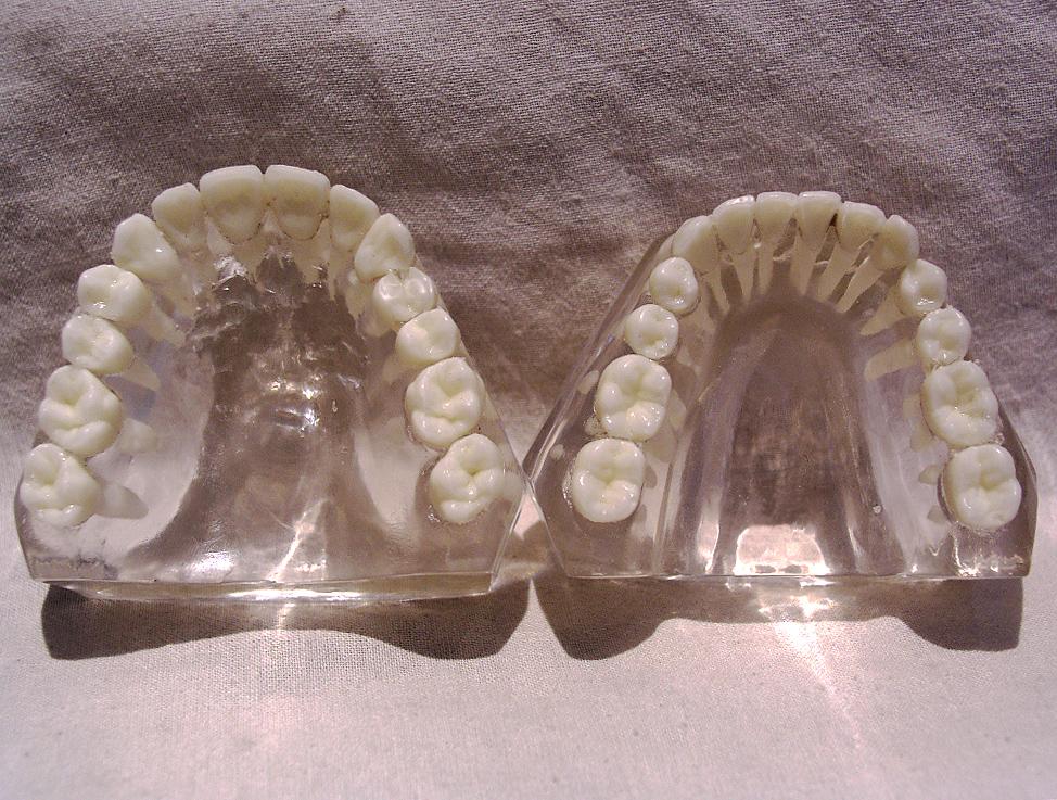 Demonstration model of teeth. The photo was taken the 23rd December 2005 by Håkan Svensson (Xauxa).